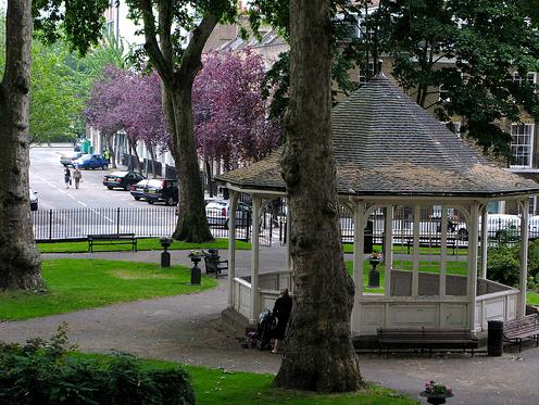 The Bandstand at Northampton Square, in Clerkenwell, London, in front of the main building of City University.